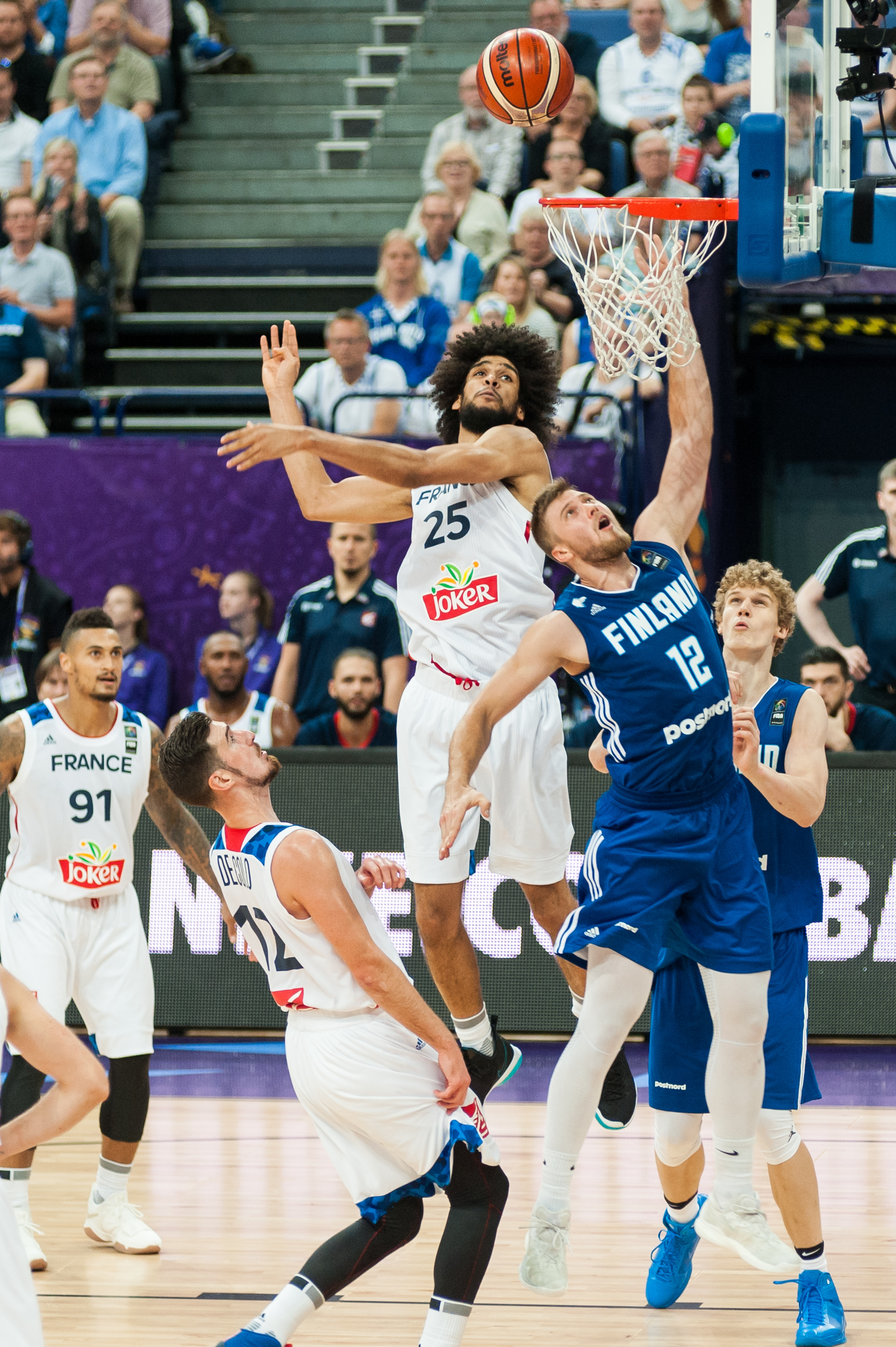 EuroBasket 2017 Group A game between France and Finland at Hartwall Arena in Helsinki, Finland.